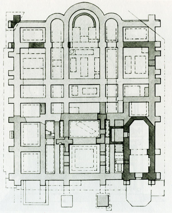 Floorplan of Church of Tithes, Kiev, lying in ruins prior to 1828 rebuild